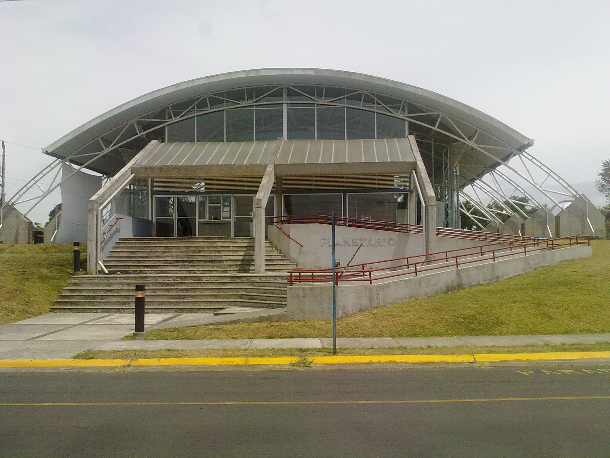 Planetarium of the University of Costa Rica.